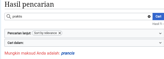 Screenshot showing search result of word 'praktis' suggesting the word 'prancis' on Indonesian Wikipedia